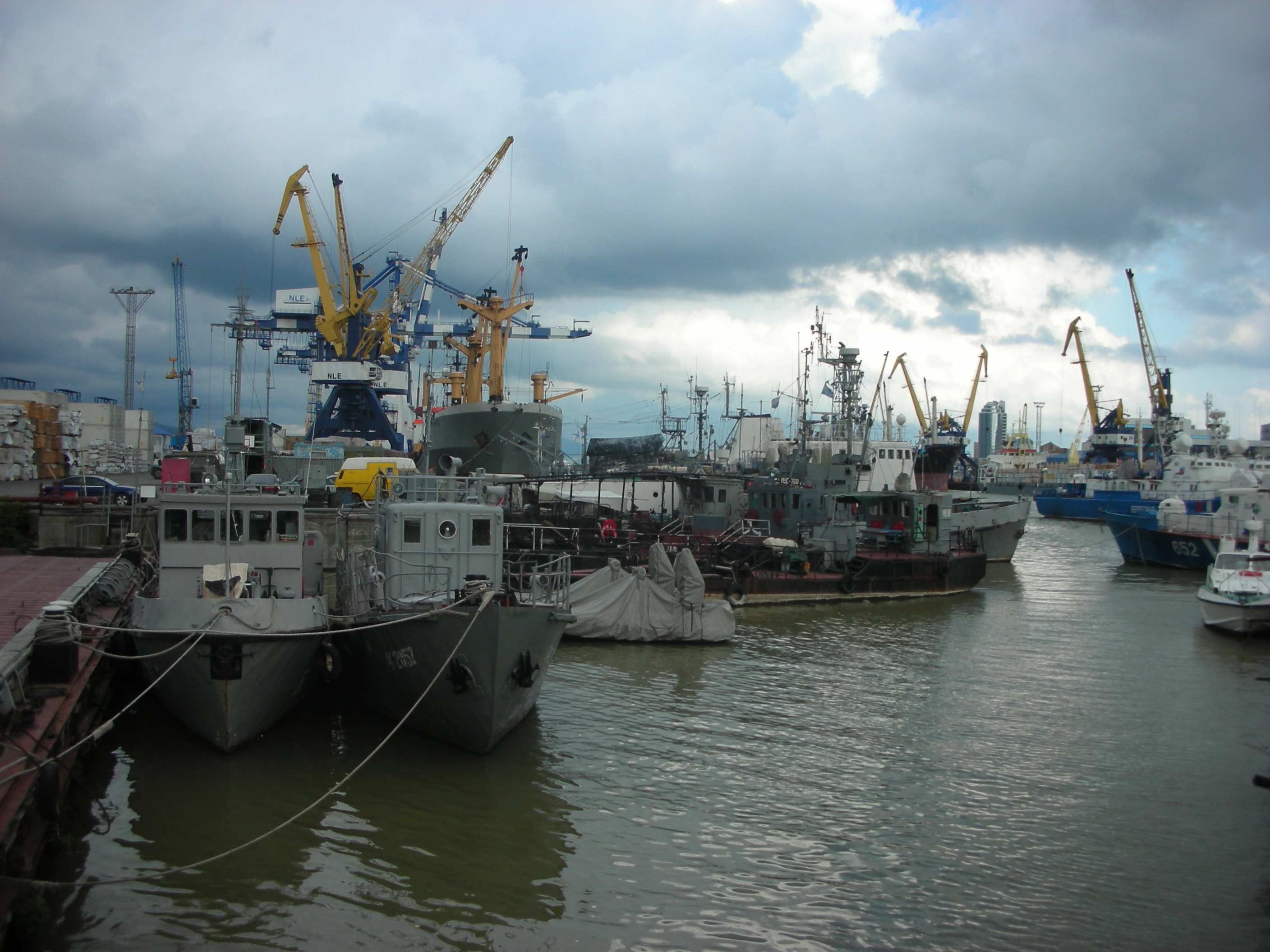 Fishing Port Novorossiysk.There are projects 1400 "Grif" and 133 "Antares" border guard ship/boat on right side of the picture (3 blue/white ships).